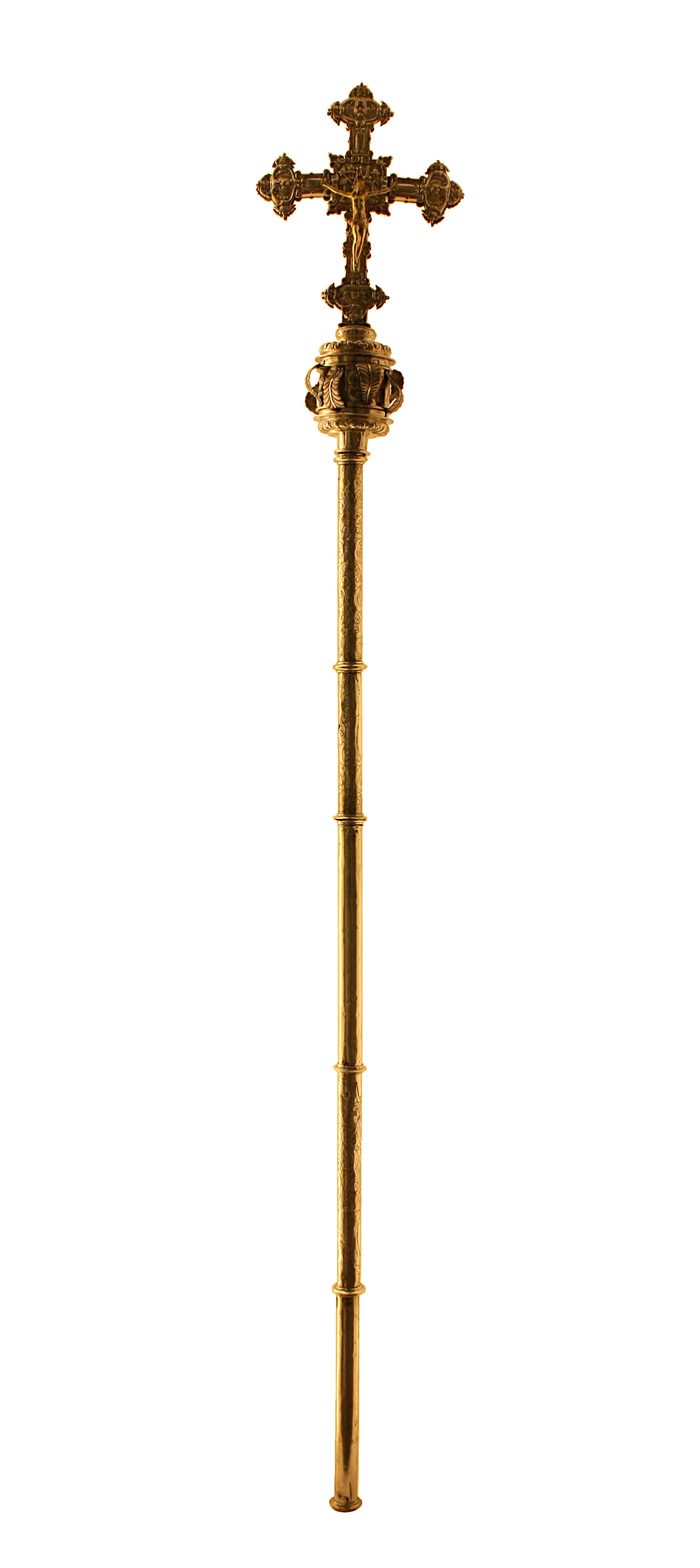 Processional cross, Franz Mayer colection, Mexico City